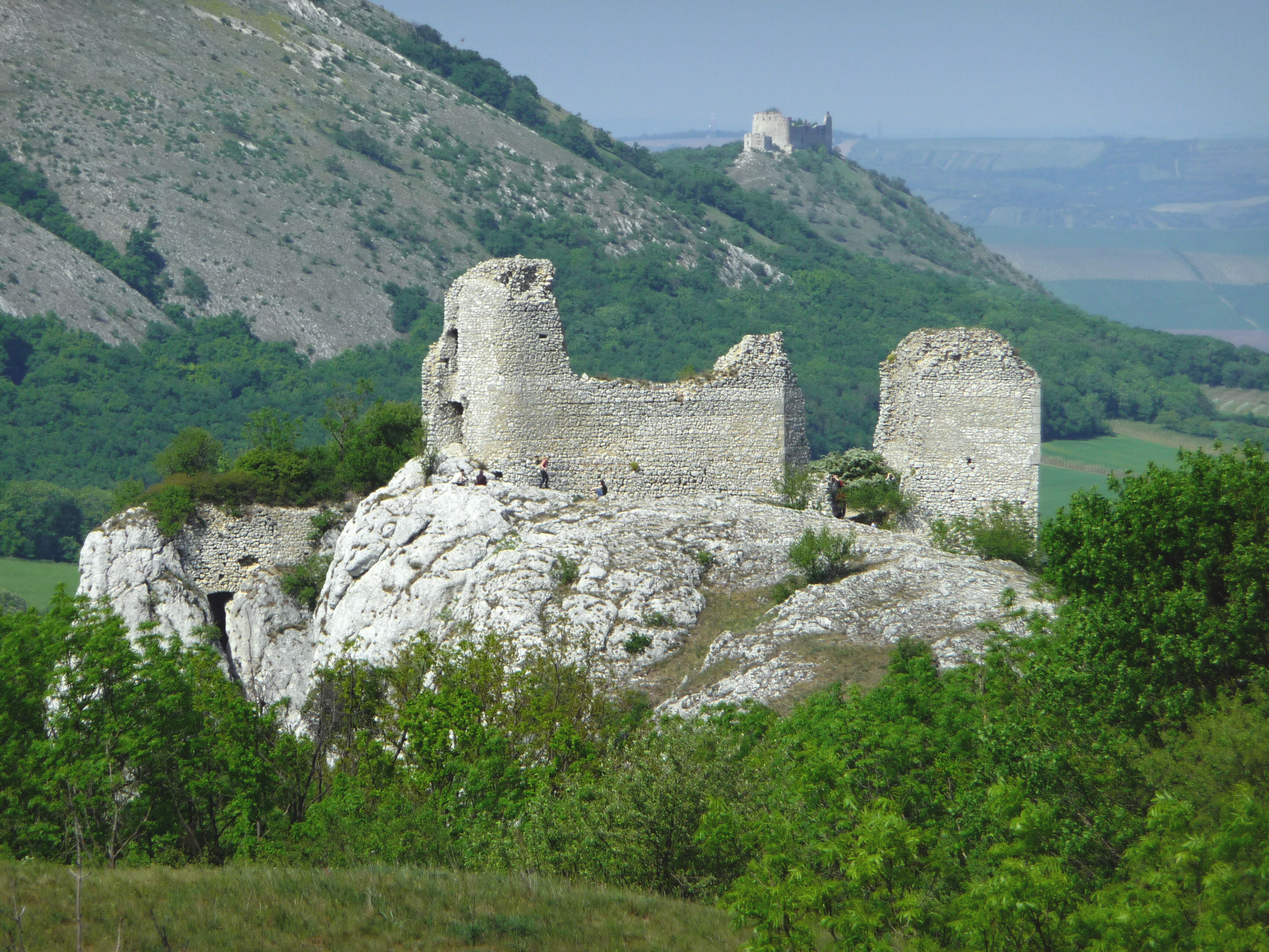 Sirotčí hrádek with Dívčí hrad in the behind (South Moravian Region, Czech Republic).